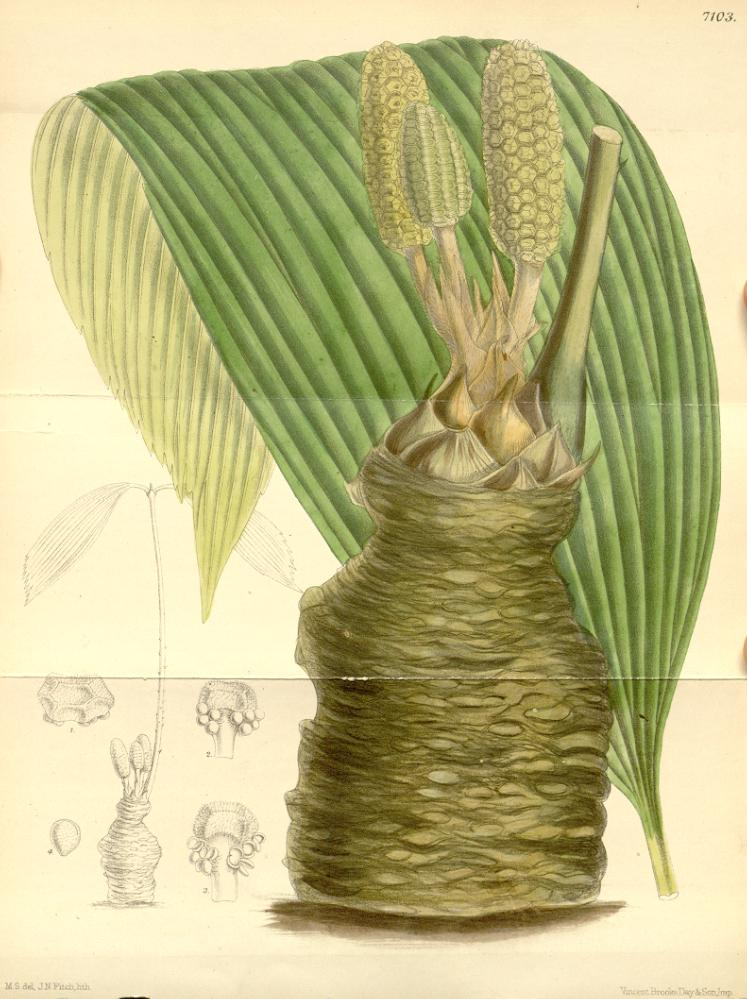 Illustration of Zamia wallisii